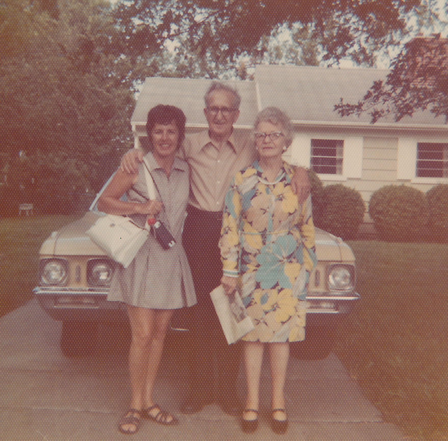 Jo Anna Scherrer (Daughter) & Keith Maria Roberts (Wife)